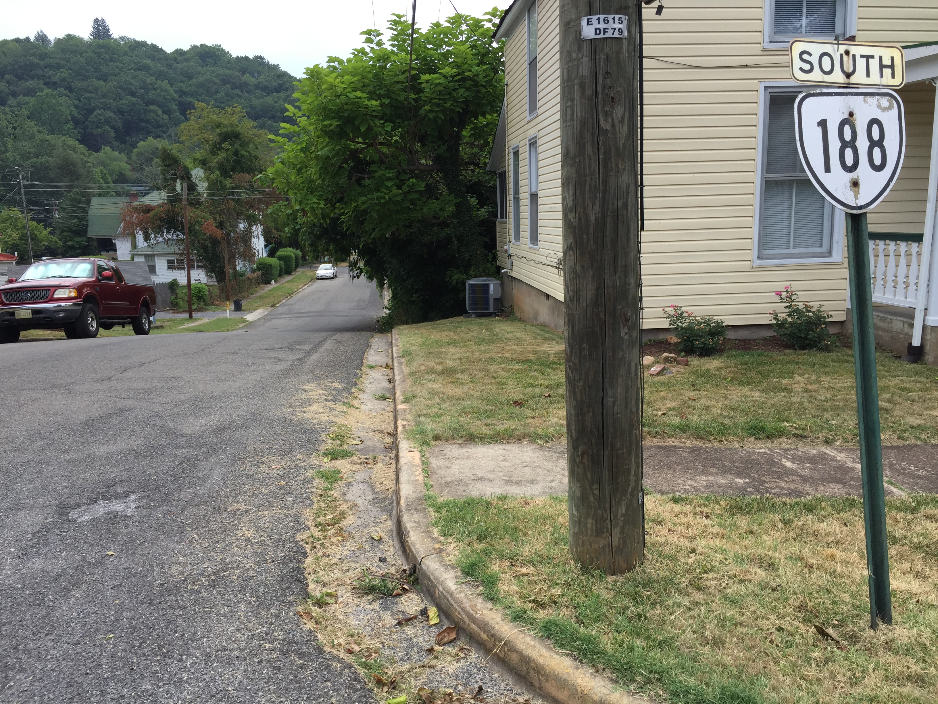 View south along Virginia State Route 188 (Lafayette Street) at McCormick Boulevard in Clifton Forge, Alleghany County, Virginia